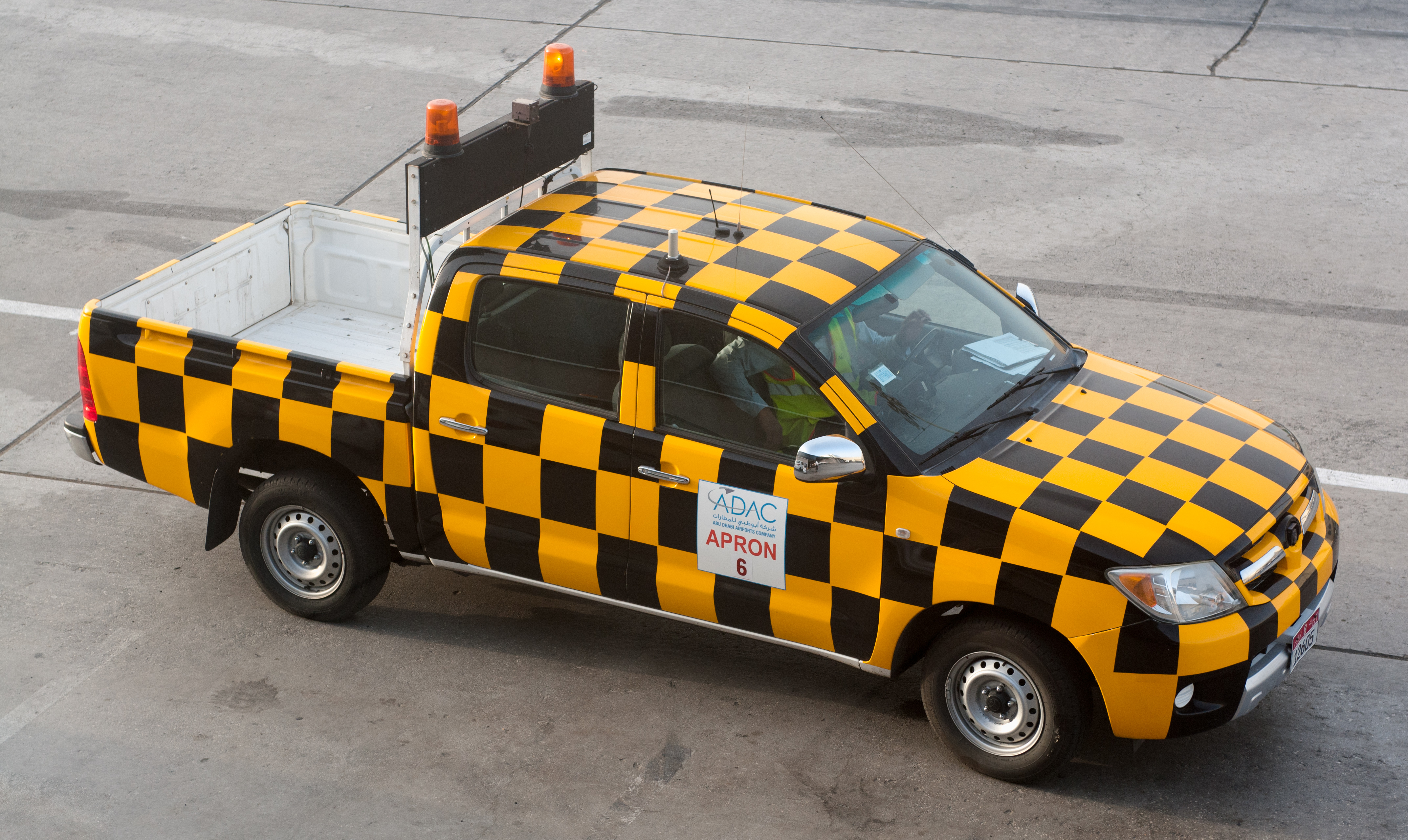 Toyota Land Cruiser Prado 150 at Abu Dhabi International Airport